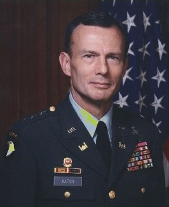 Lieutenant General Henry J. Hatch, Chief of Engineers June 17, 1988–June 4, 1992. Category:United States Army Corps of Engineers